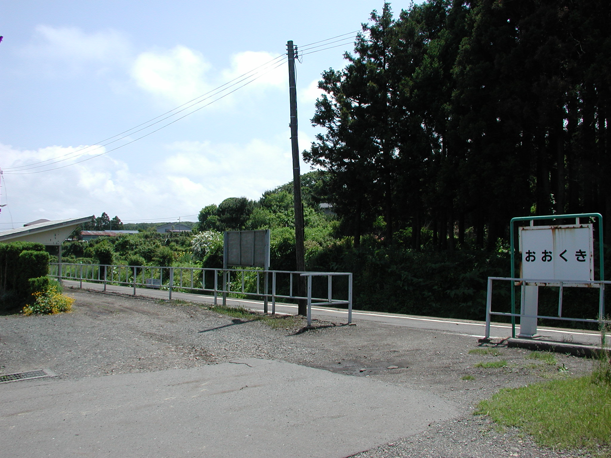 Ōkuki Station of Entrance